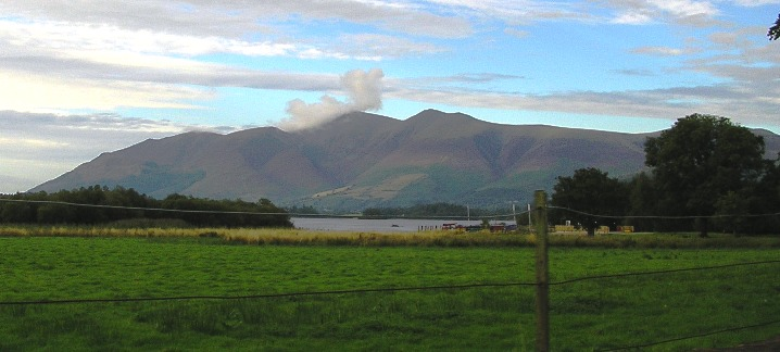 Skiddaw, seen form Braithwaite, taken by User:Grinner on 8th September 2005